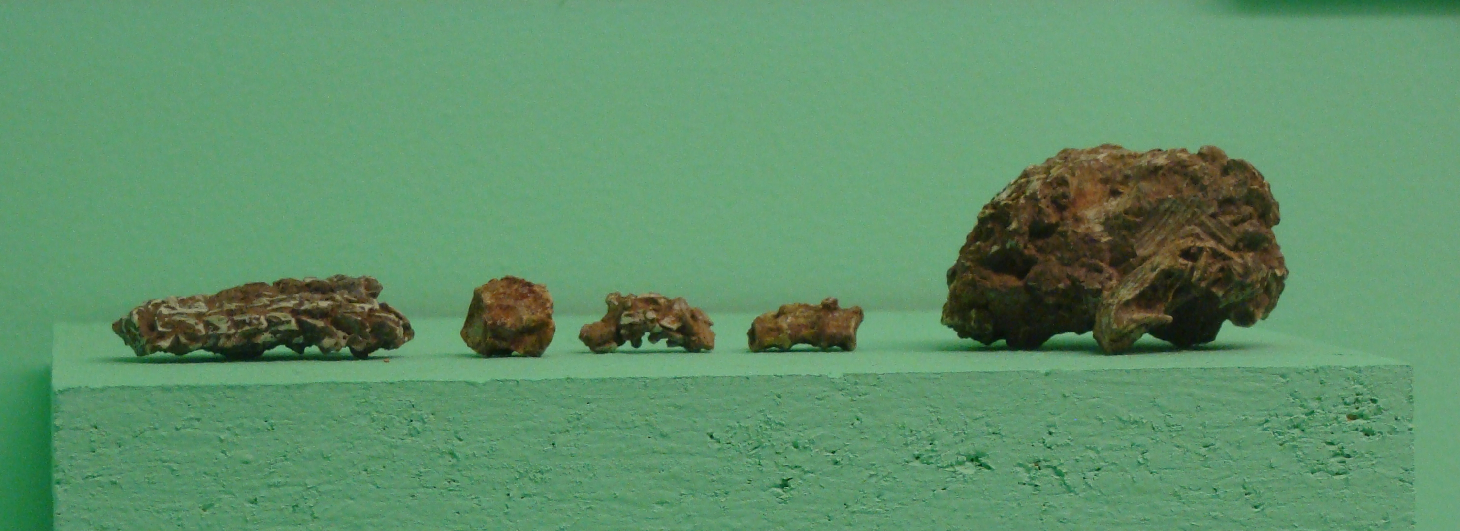 Lysorophus sp. skull and vertebrae. Willbarger Co., Texas